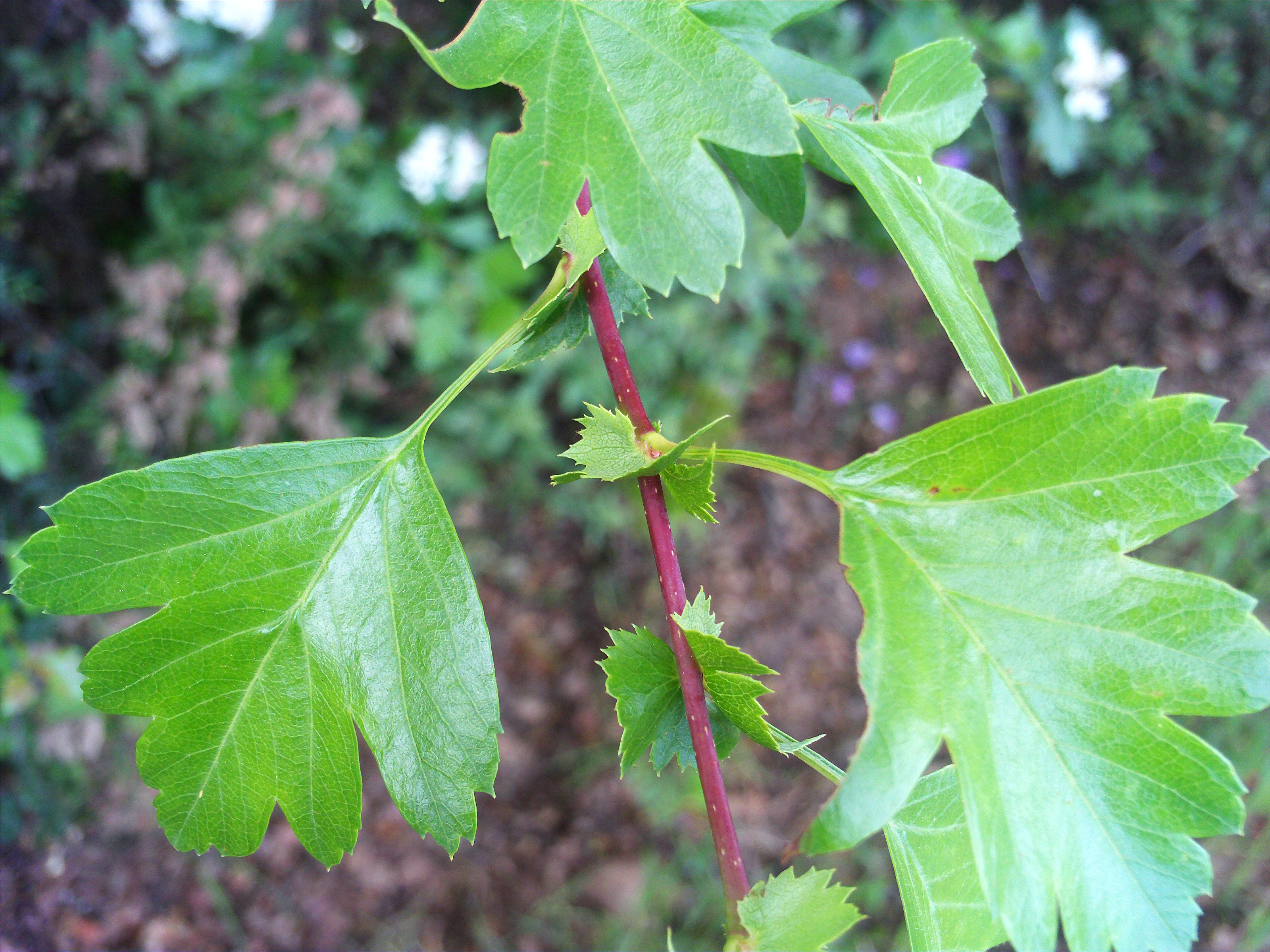 Crataegus monogyna stem and leaves, Las Tiñosas, Sierra Madrona, Spain